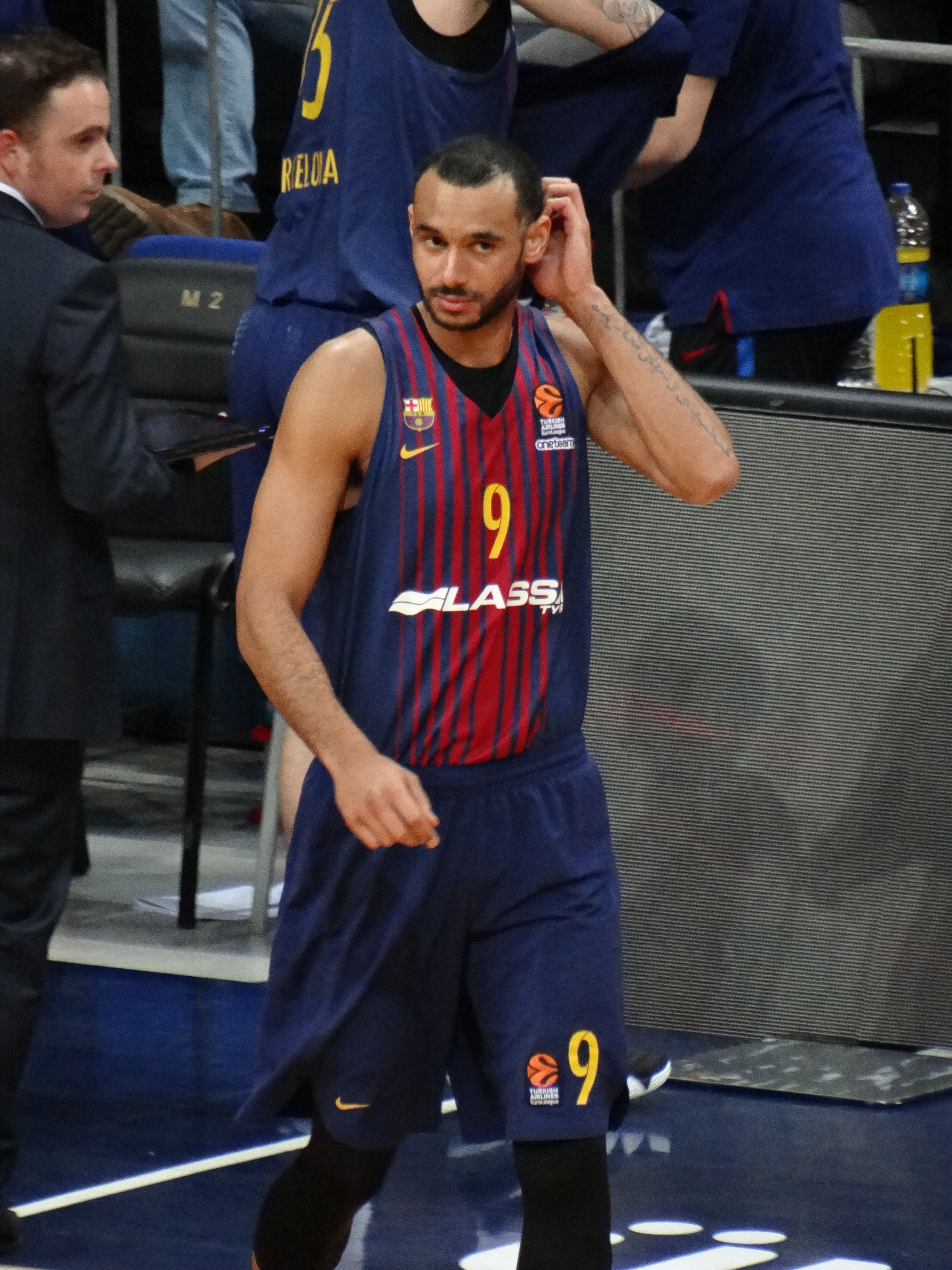 Ádám Hanga 9 FC Barcelona Bàsquet 20180126